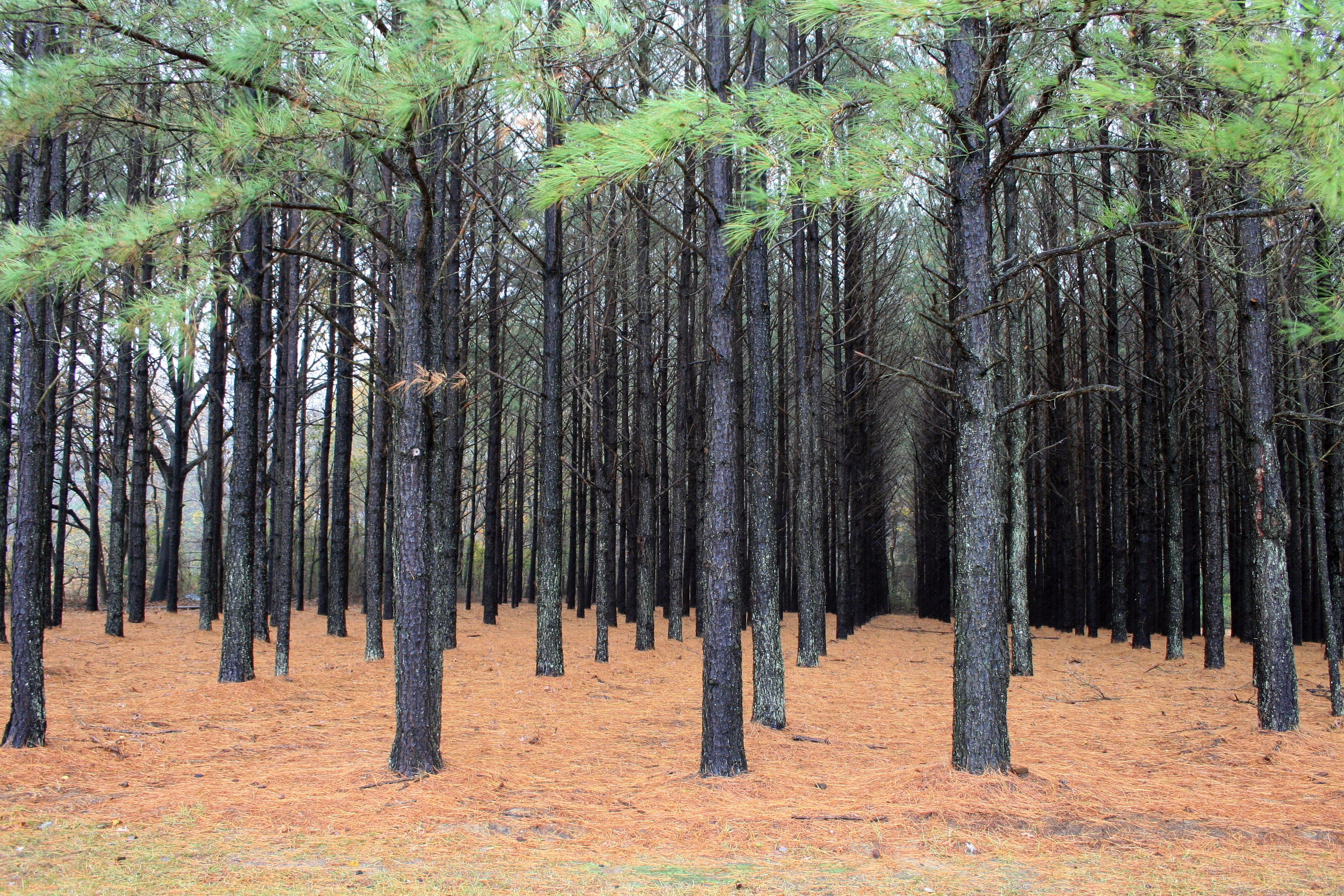 Pinus taeda plantation, USA